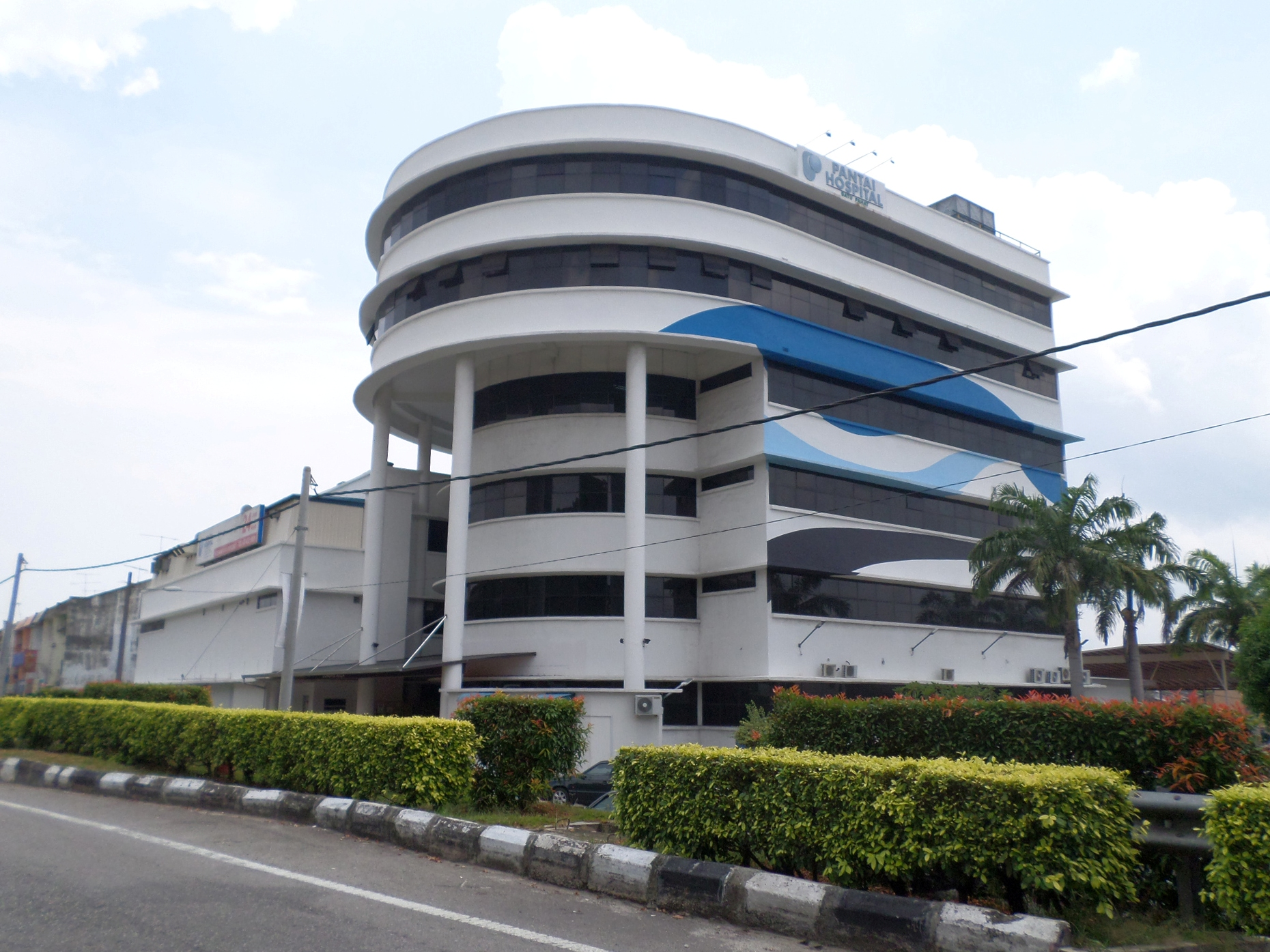 Pantai Hospital Batu Pahat, Batu Pahat, Johor, Malaysia